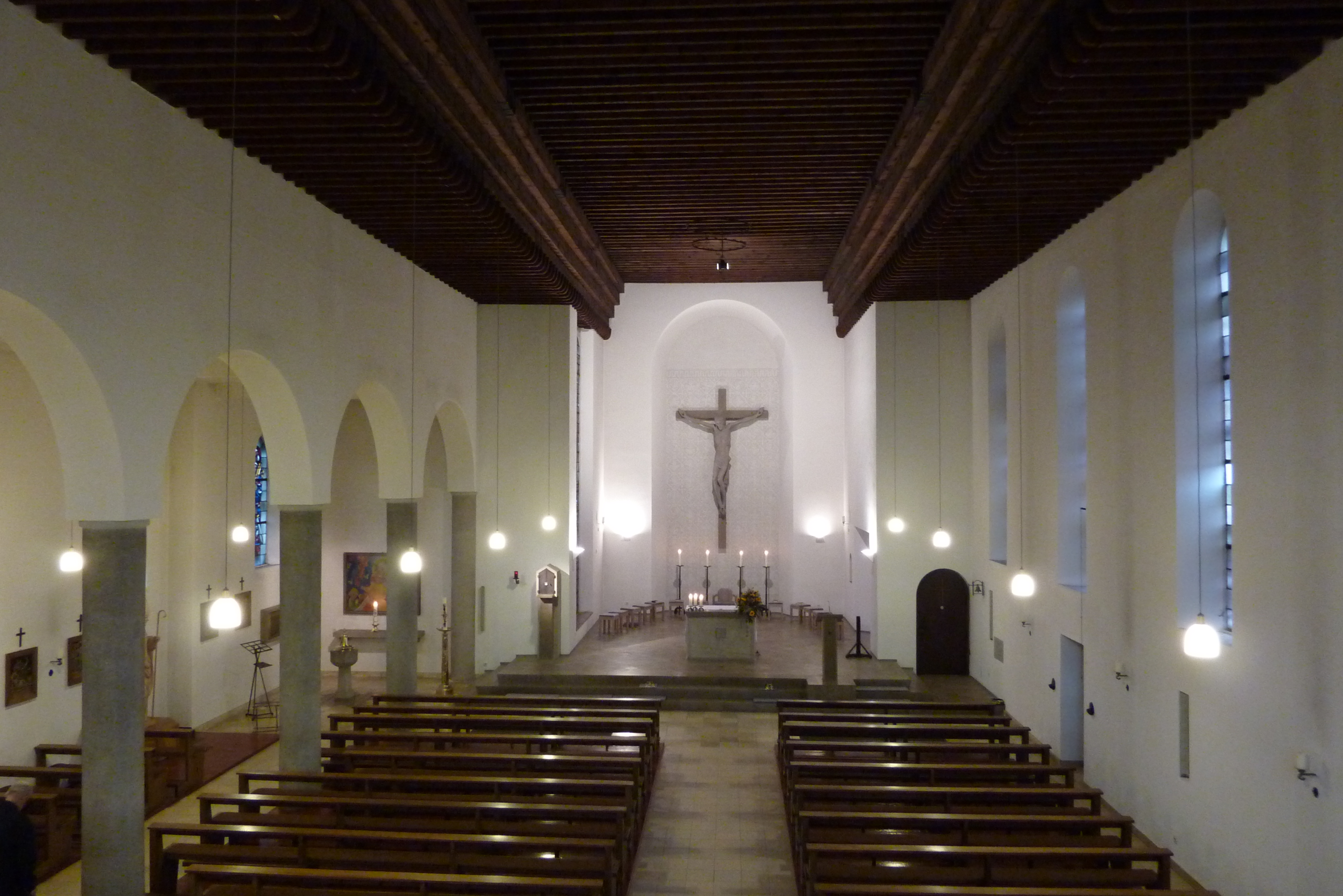 Catholic parish church "Saint Martin" (interior view) in Wormersdorf (Rheinbach)